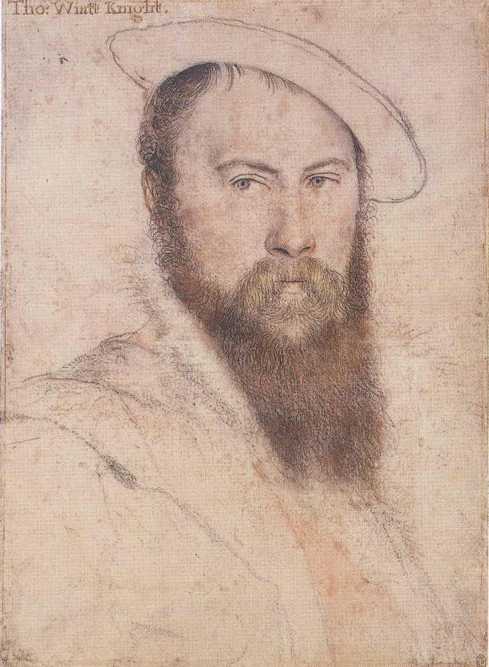 Portrait of Sir Thomas Wyatt. Black and coloured chalks, pen and ink on pink-primed paper, 37.3 × 27.2 cm, Royal Collection, Windsor Castle. Thomas Wyatt (1503?–42) was a diplomat and a gifted poet who introduced the Italian sonnet form to England. He was arrested after the fall of Anne Boleyn, whom he had admired in poetry, but he recovered to become ambassador to the Emperor Charles V before being arrested again in 1541. Holbein also drew a profile portrait of Wyatt and designed goldsmiths' work for him (Foister, 56). A high-quality copy of this drawing by another hand survives, perhaps from the Elizabethan period (K. T. Parker, The Drawings of Hans Holbein at Windsor Castle, Oxford: Phaidon, 1945, OCLC 822974, p. 54).